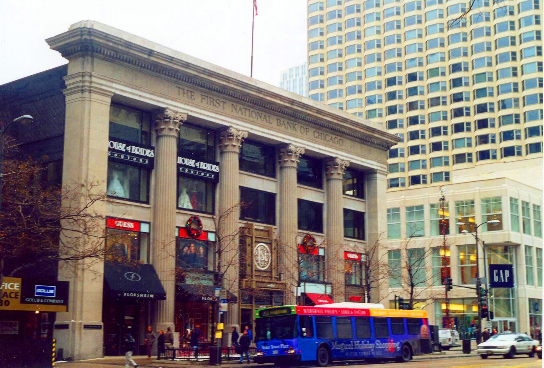 Michigan-Wacker Historic District, Michigan Avenue and Wacker Drive and environs Chicago Loop